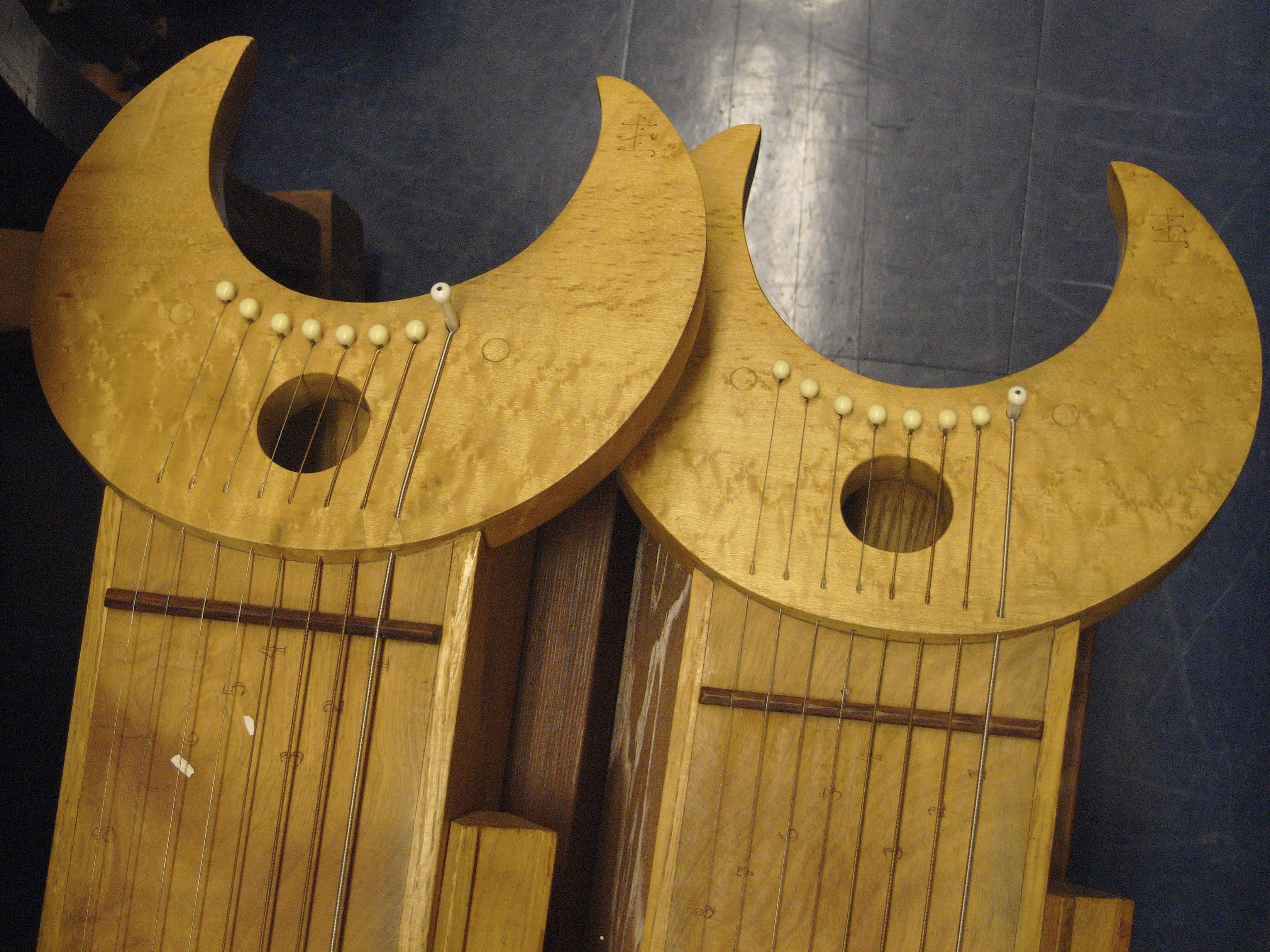 Harry Partch Institute open house 2008. Unidentified instrument.